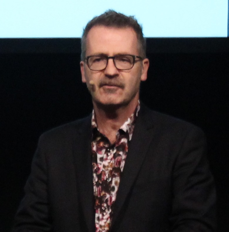 Danish journalist Adrian Lloyd Hughes